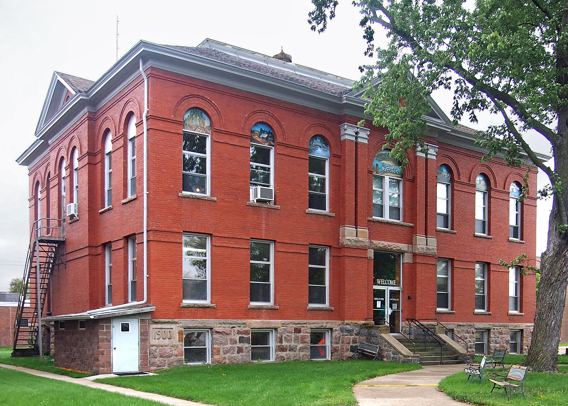 The former Hubbard County Courthouse, 301 Court Ave, Park Rapids, Minnesota, USA. Viewed from the southeast.